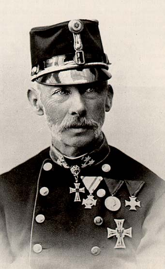 Archduke Wilhelm Franz Karl of Austria-Toscana, 1827-1894, youngest Son of Archduke Karl (Charles) of Austria, Duke of Teschen, Grand Master of the Teutonic Order 1863-1894, FZM in the imperial-royal artillery